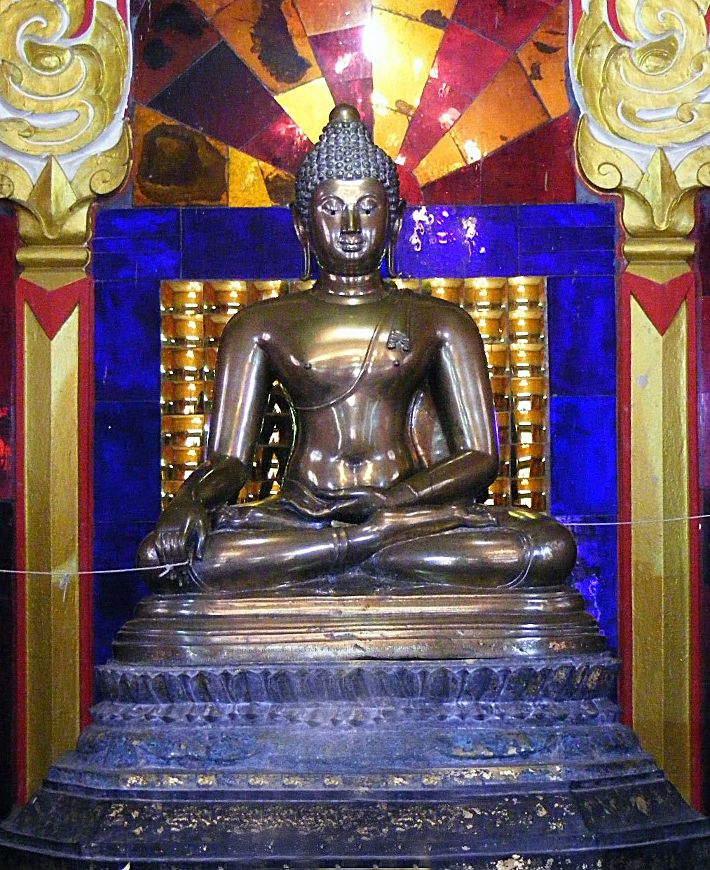 Luang Pho Phet (Wat Tha Thanon) Location: Wat Tha Thanon Mueang Uttaradit, Uttaradit Province, Thailand.